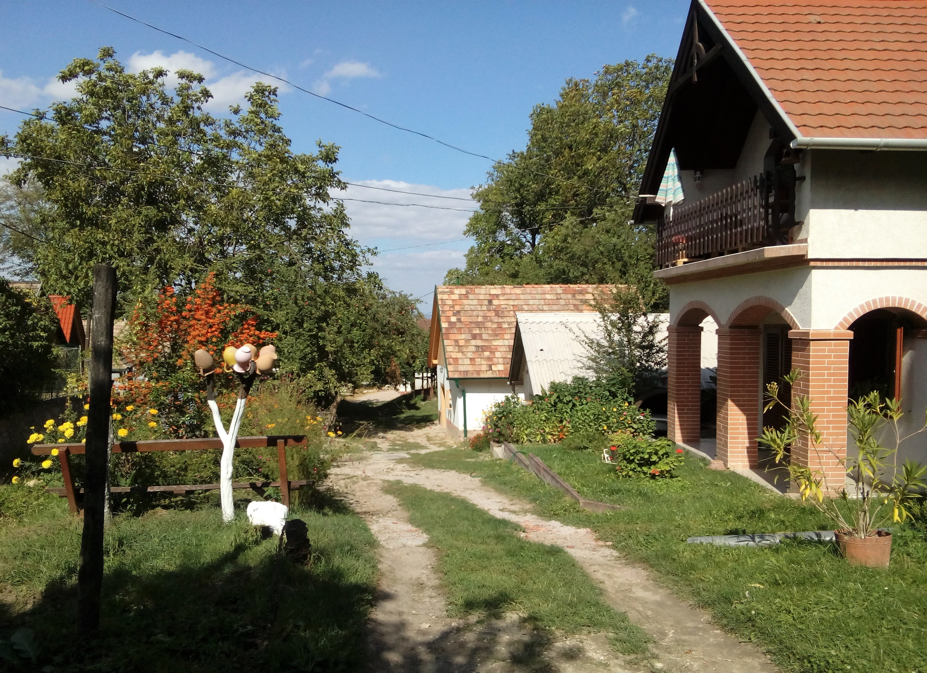 Wine cellars in Neszmély (Hungary)